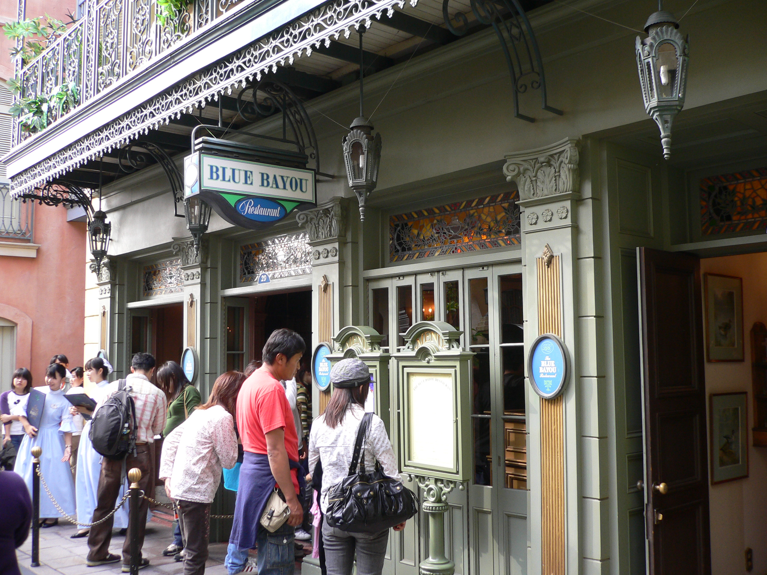 Blue Bayou Restaurant